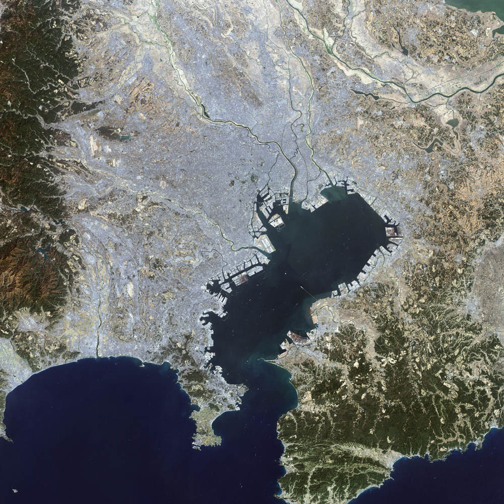 This false-color Landsat 7 image shows the greater Tokyo metropolitan area, situated on the eastern shore of the Japanese island of Honshu. The large Tokyo Bay dominates the center of this scene, and if you look closely you can see boats and their wakes on the water. The greater Tokyo area fans out in a crescent shape around the western, northern, and eastern shores of Tokyo Bay. Greater Tokyo is bordered to the west by rugged mountains and to the east by the vast expanse of the Pacific Ocean. The greater metropolis area is comprised of Tokyo prefecture, situated on the northwestern shore of Tokyo Bay, and the three neighboring prefectures of Kanagawa to the south, Saitama to the north, and Chiba to the east and southeast across Tokyo Bay. Over the last 400 years, Japan’s National Capital Region has evolved into a large, self-governing unit consisting of 26 cities, 5 towns, and 8 villages. The region is home to some 12 million people (more than a quarter of Japan’s whole population) in an area spanning 2,187 square km.